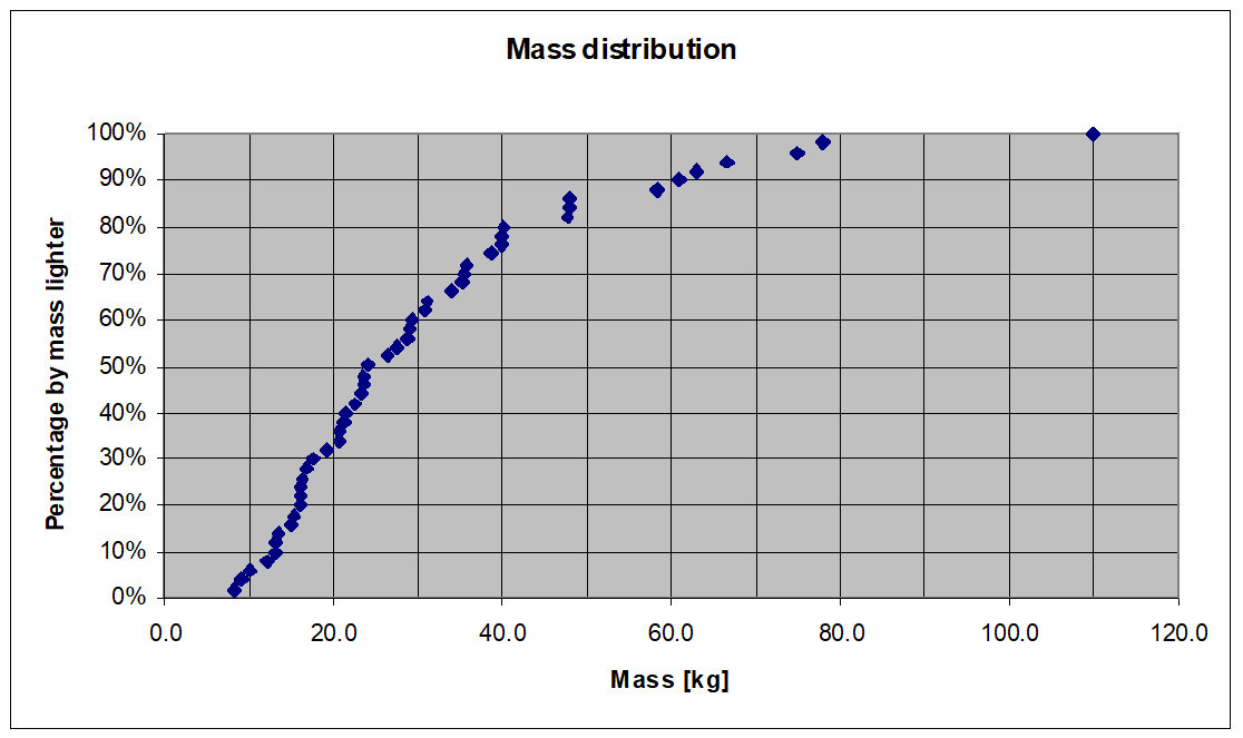 Distribution of a stone sample taken in a quarry in Devnya, Bulgaria. The sample has been analysed and the W50 and dn50 determined W50 = 24 kg density = 2284 kg/m3, dn50 = 22 cm